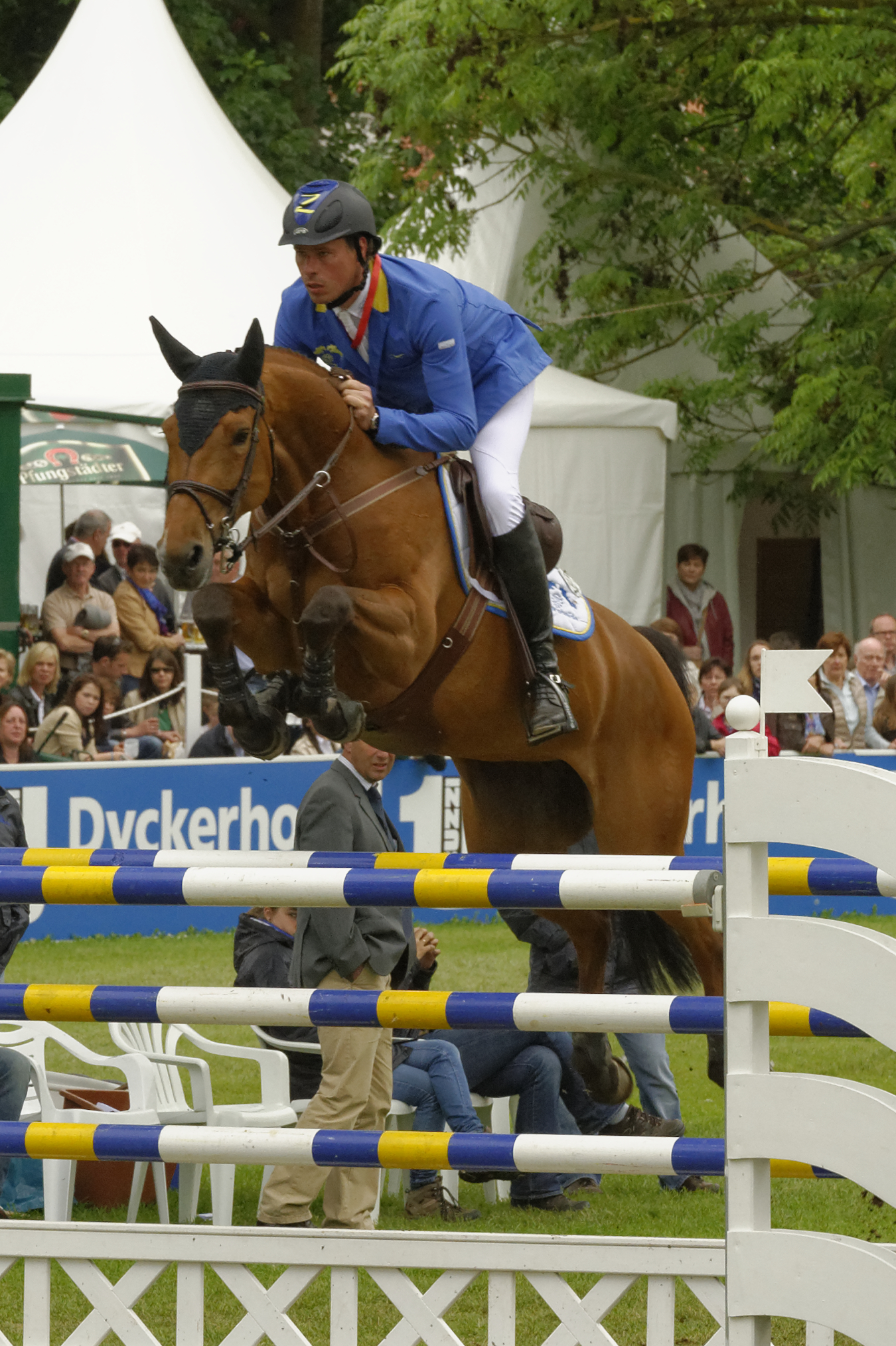 Internationales Pfingstturnier Wiesbaden 2013 The making of this document was supported by the Community-Budget of Wikimedia Germany.